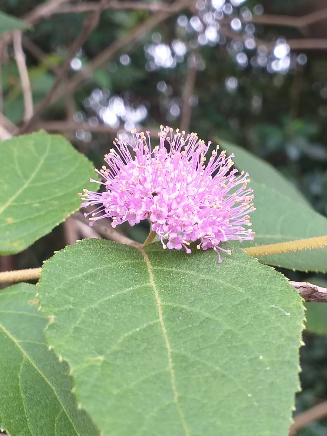 Callicarpa formosana. Botanical Garden of National Museum of Natural Science, Taichung, Taiwan.